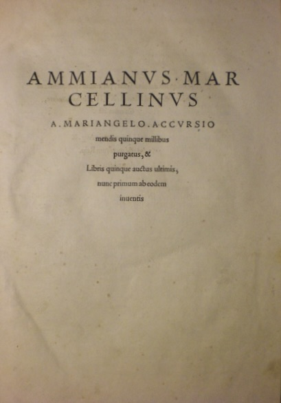 Title page of Accursius' edition of the works of Roman historian Ammianus Marcellinus (Augsburg 1533)